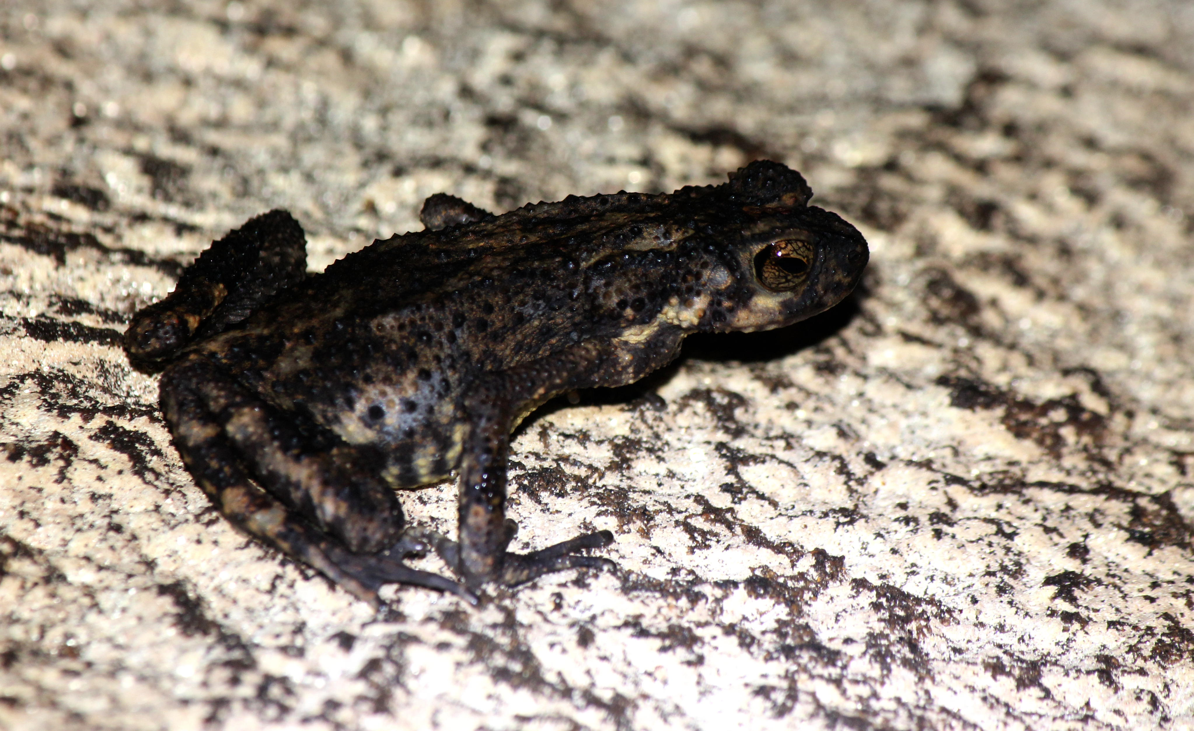 Adenomus kelaartii, a frog endemic to Lanka